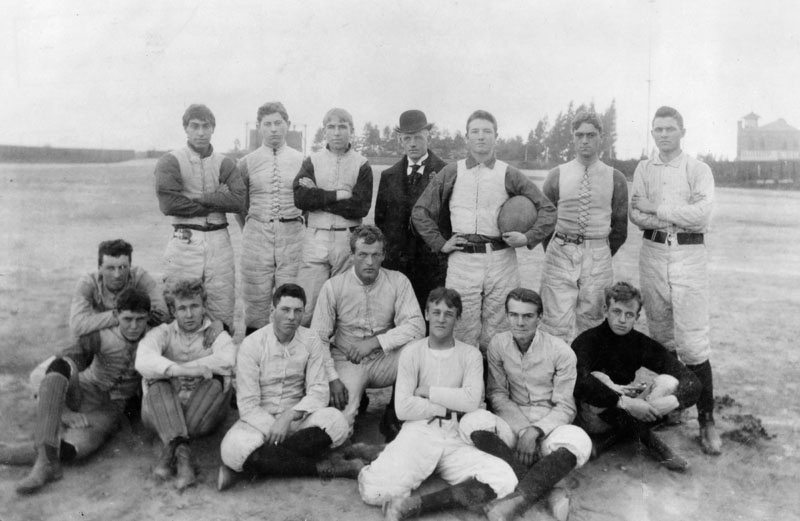 Los Angeles High School's football team in 1894. Seated from left to right: Goodwin, Parsons, Ralph Hubbard, Meville Dozier, Stacy Coty, Fred Schoemaker, Harris, Gemil Chichester. Upper row, Rolfe, Jackie Steinart, Gay Lewis, George Wright, Dan Landensheimer(?), Otto Wedemeyer, George McDill.